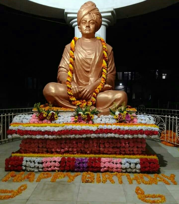 Swamiji at BRKM on his 156th birthday